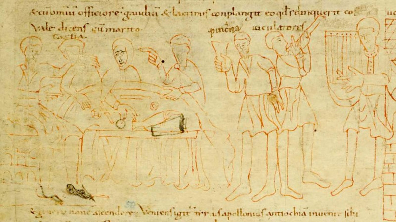 Illustration on medieval manuscript page (Werden, ca. 1000) from Historia Apollonii regis Tyri. See: Apollonius pictus. Egy illusztrált, késő antik regény 1000 körül. / An illustrated, late antique romance around 1000. Ed. Anna Boreczky and András Németh. Budapest, Széchényi National Library, 2011.